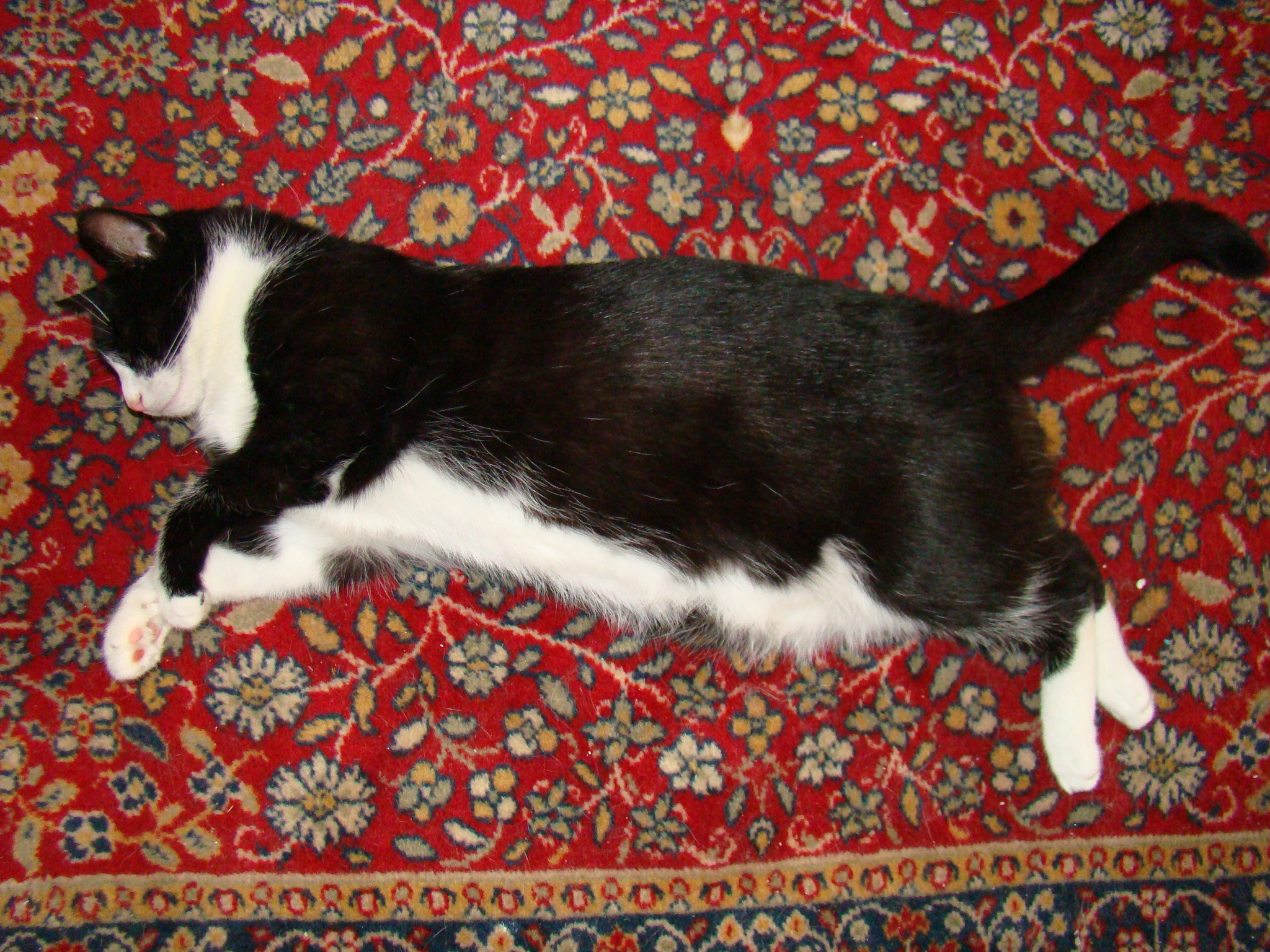 Prity sleeping cat on the carpet. The picture has taken in my holidayhouse in Burgenland, Austria